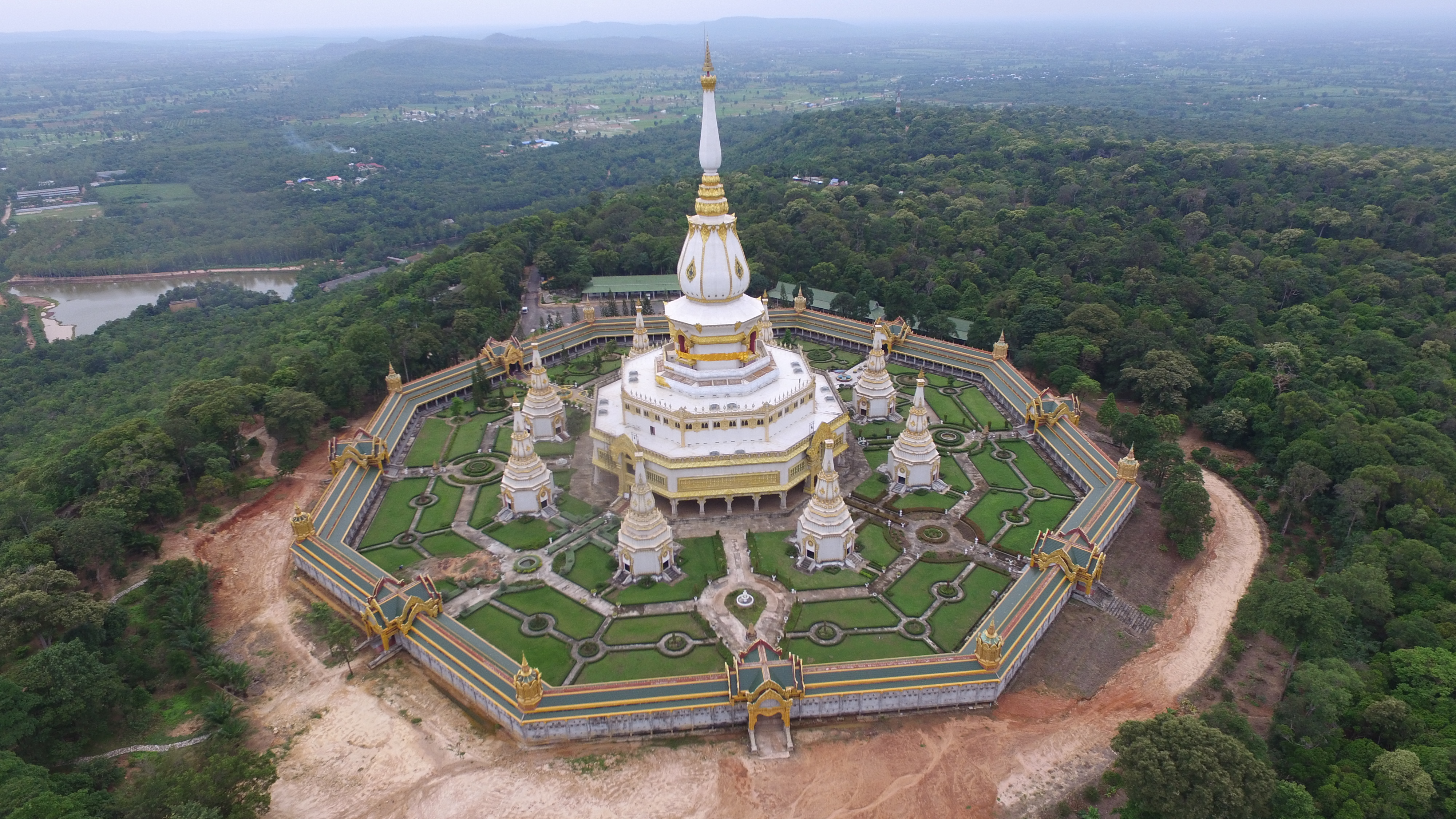 jedee